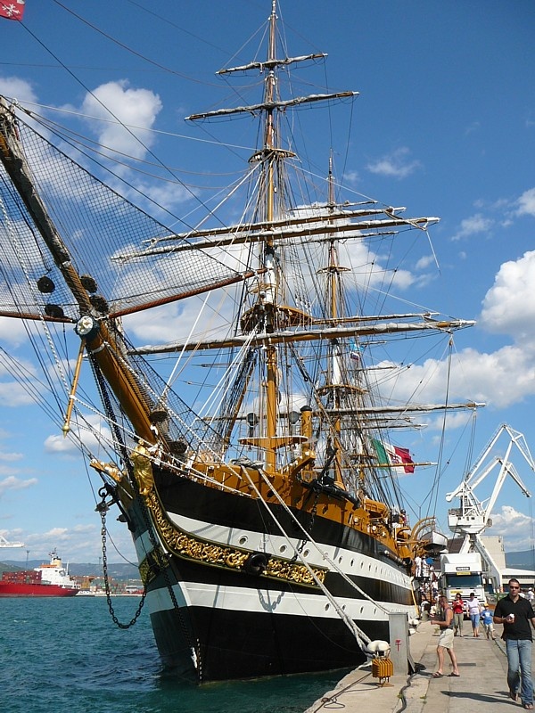 Amerigo Vespucci in the Port of Koper, 2007.